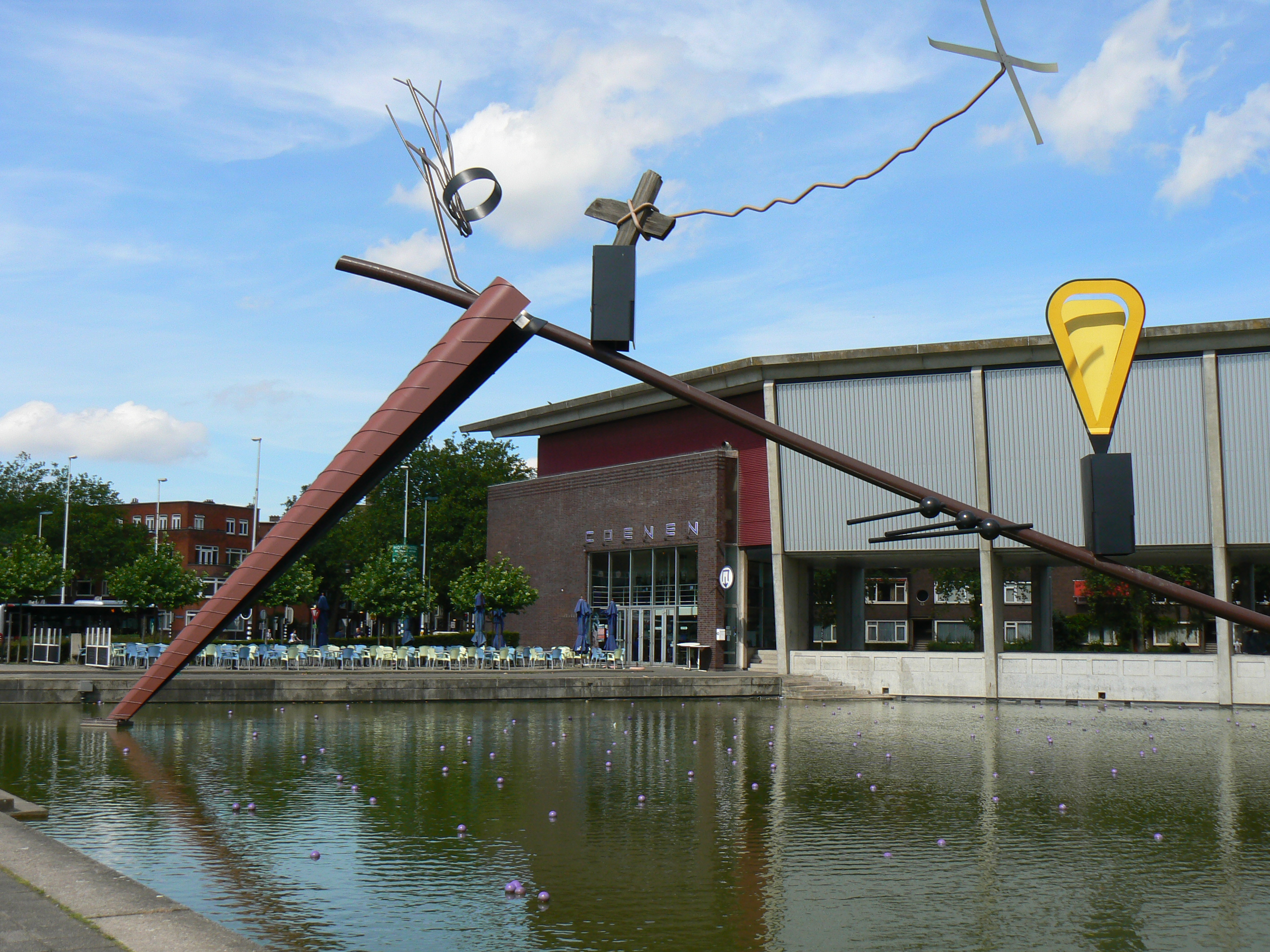 sculpture by Auke de Vries at the NAI in Rotterda/The Netherlands